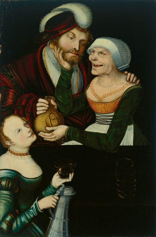 16th century Painting by Lucas Cranach the Elder, estimated at $40 million, returned to the Tbilisi Museum of Fine Arts in 2004, a decade after being stolen.